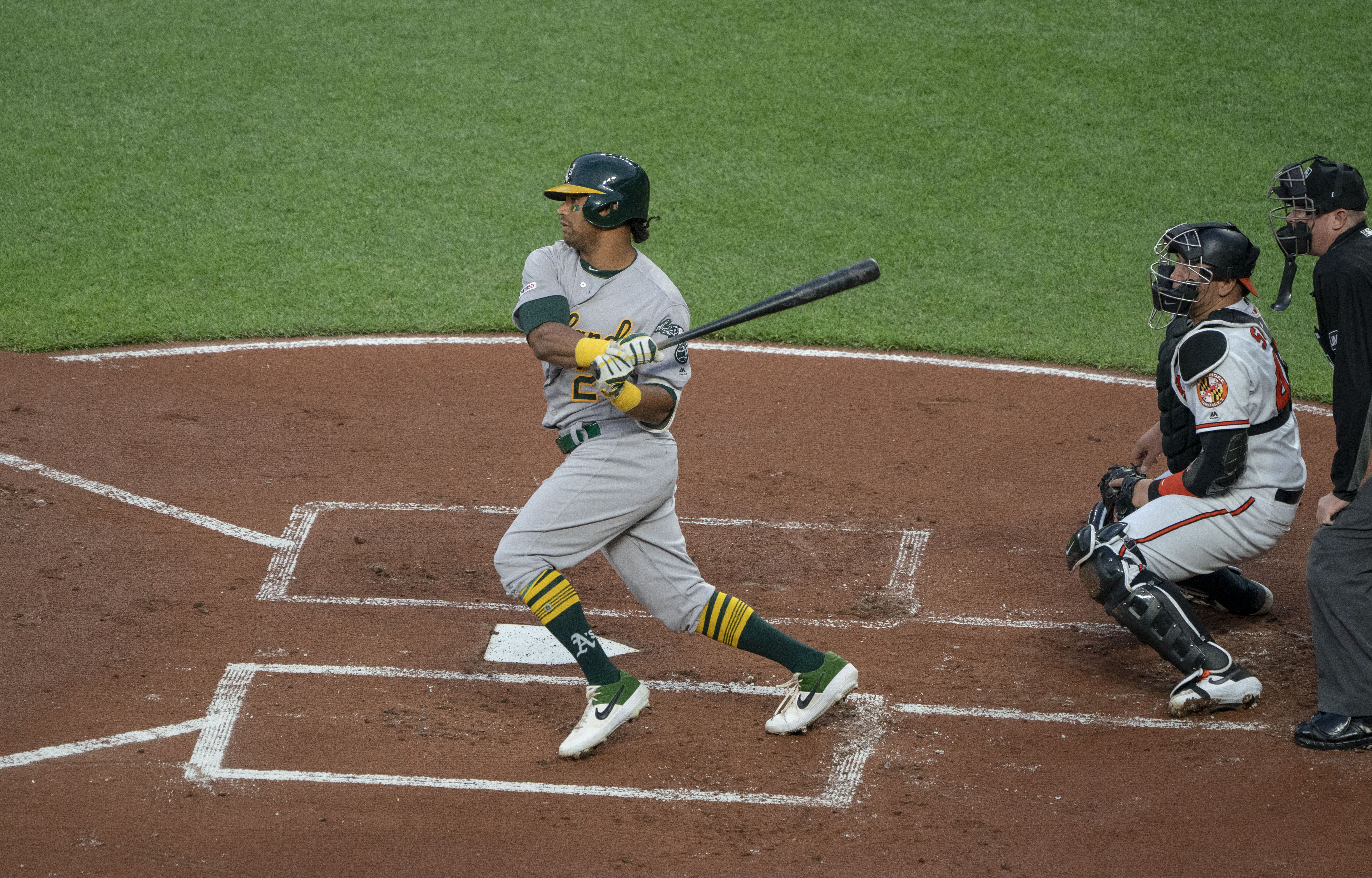 Athletics at Orioles 4/10/19